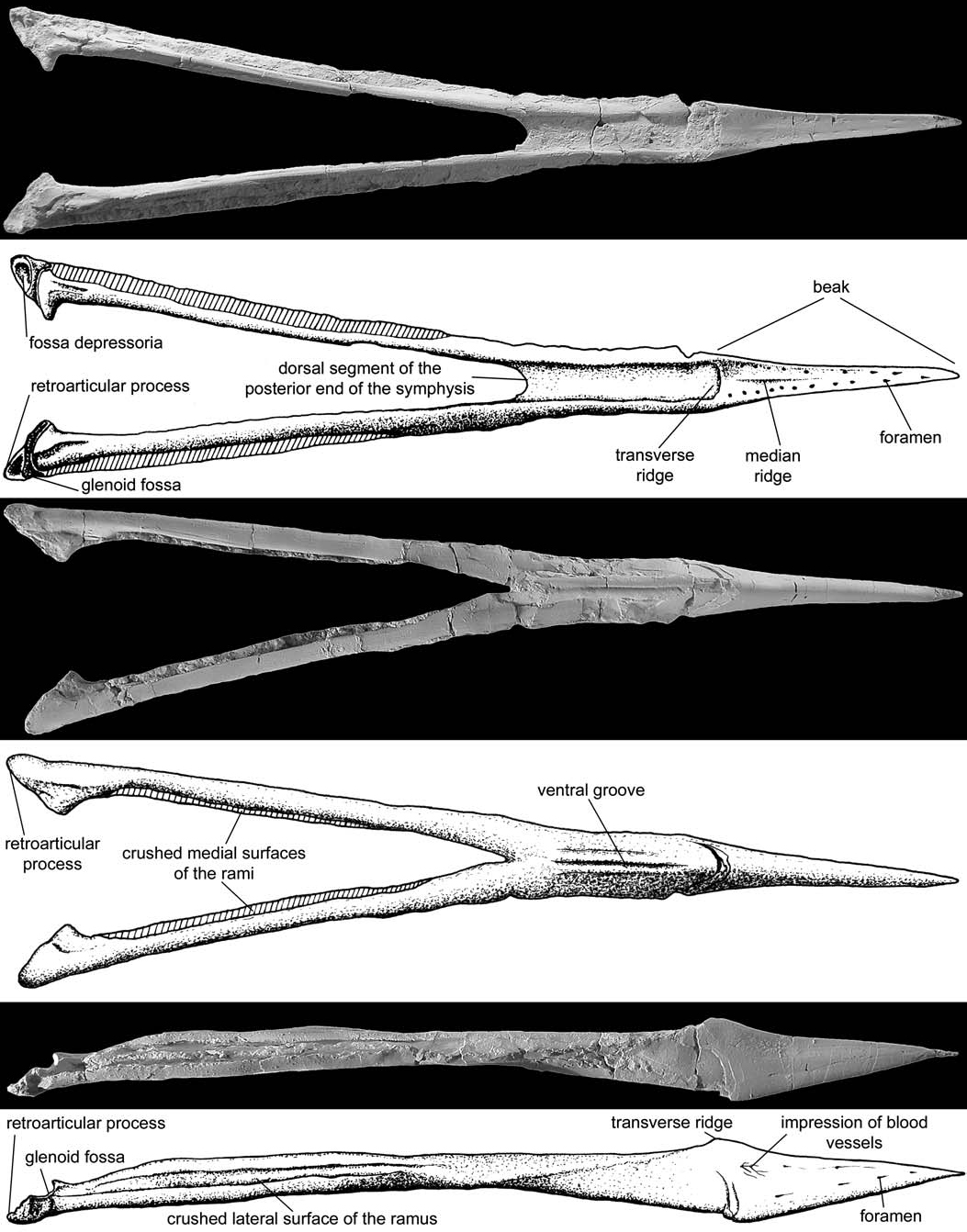 Bakonydraco galaczi gen. et sp. nov.MTMGyn/3, Iharkút, Bakony Mts., Hungary, Csehbánya Formation, Santonian (Upper Cretaceous). Mandible in dorsal (A, B), ventral (C, D), and lateral (E, F) views.